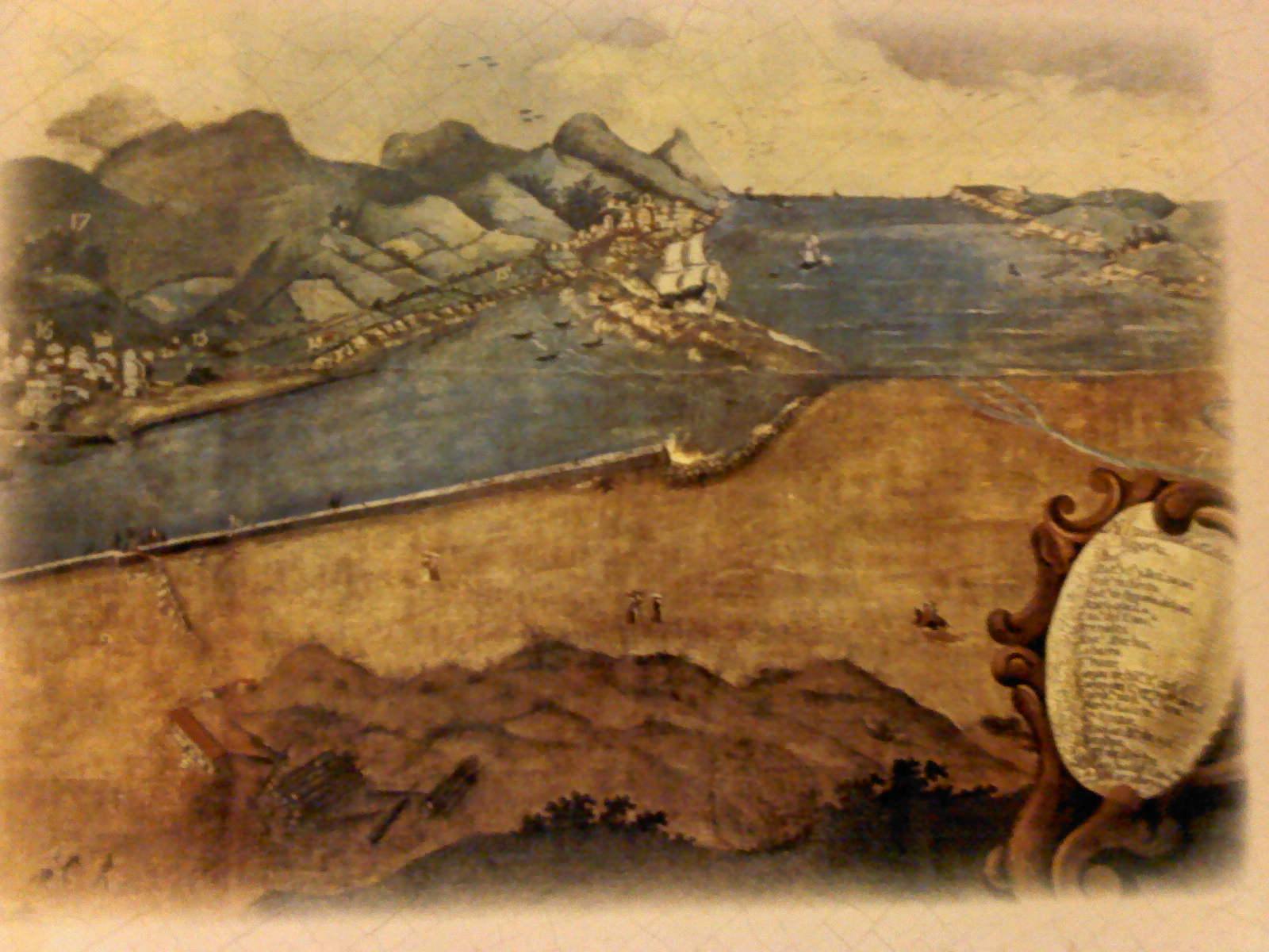 Painting showing the sandbar in El Abra bay (Biscay)